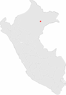 Locator map of Iquitos — in the Amazon Basin, northeastern Perú.